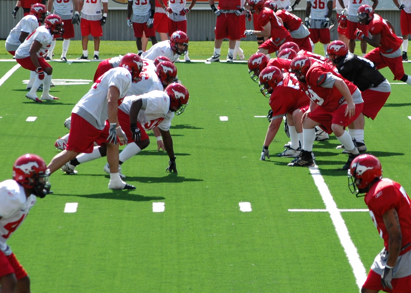 Calgary Stampeders players scrimmage at training camp prior to the 2006 Canadian Football League season.